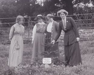 Annie Kenney, Mary Blathwayt, Laura Ainsworth and Charlotte Marsh. This picture was taken by Colonel Linley Blathwayt and was stored on glass negatives. The Blathwayt's home of Eagle House way the home of Linley, Emily and Mary Blathwayt who all actively supported the suffragette cause. Nearly all the prominient UK suffragettes stayed with them and these photos and dozens of trees were planted to commemorate their visits. Col. Linley Blathwayt took these pictures between 1908 and 1912. He died in 1919. The pictures are made available in larger formats by .